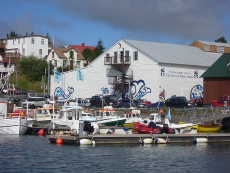 Husavik Whale Museum